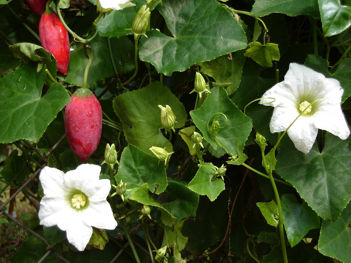 Coccinia grandis, flower, leaf, fruit. Nowadays a common weed in Tongatapu, Tonga